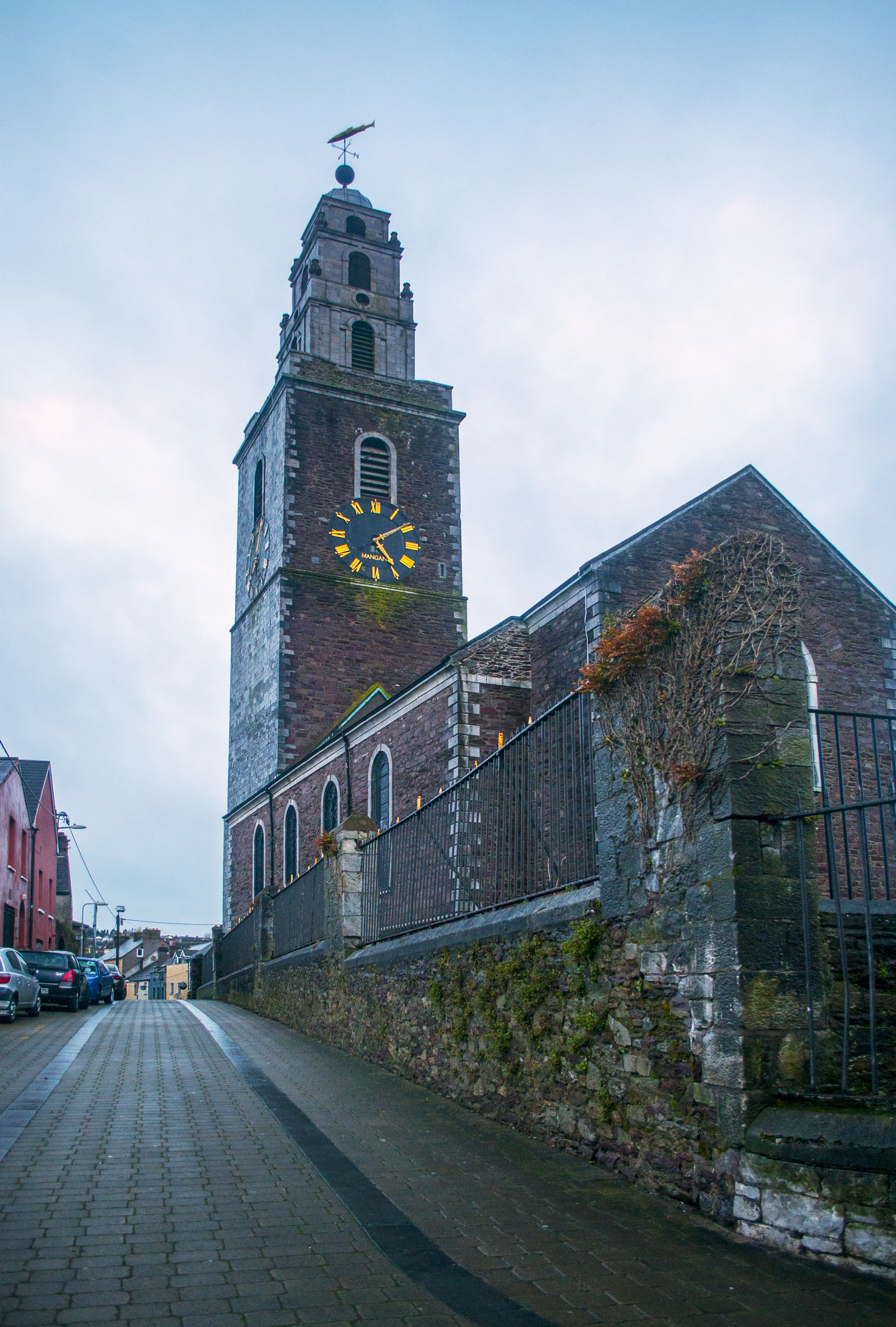 St Anne's Church Cork City